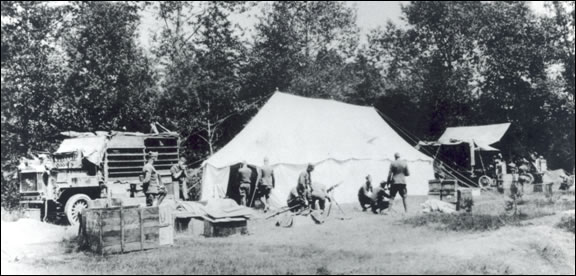 42d Infantry Division Mobile Ordnance Repair Shop of the Ordnance Department during World War I